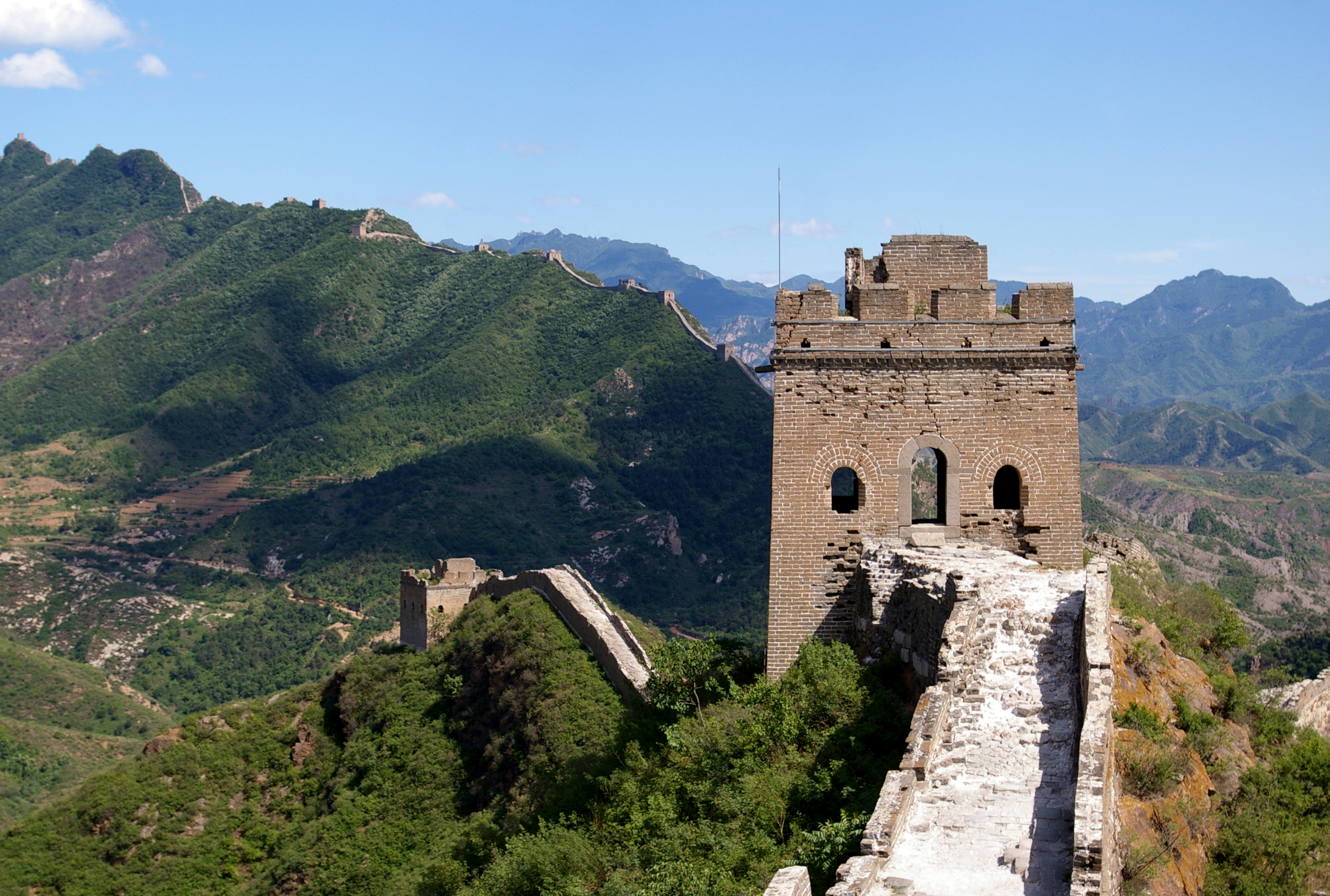 Great Wall of China near Simatai